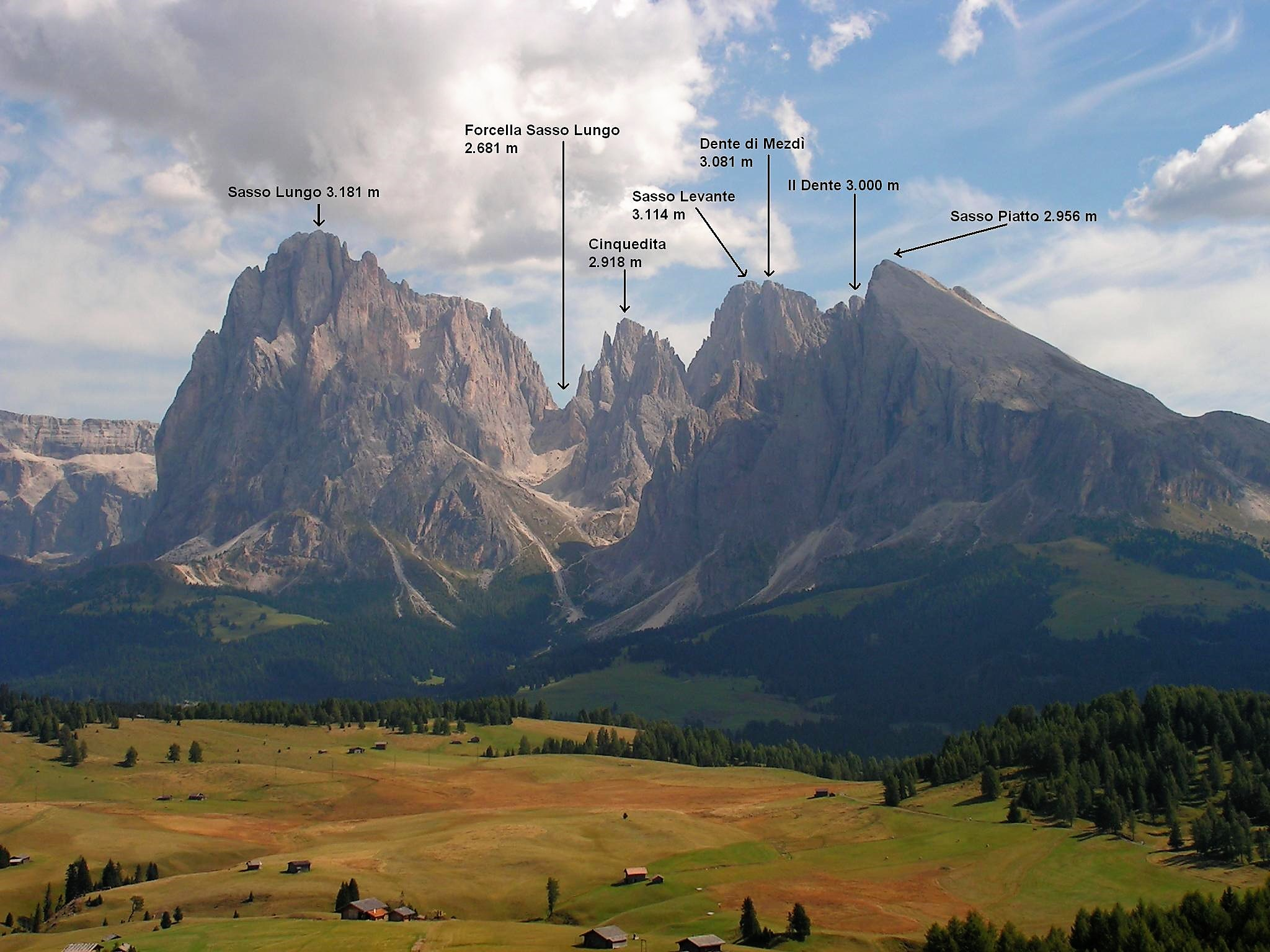 The Sassolungo (Langkofel) from the Alpe di Siusi (Seiser Alm), with description of the peaks